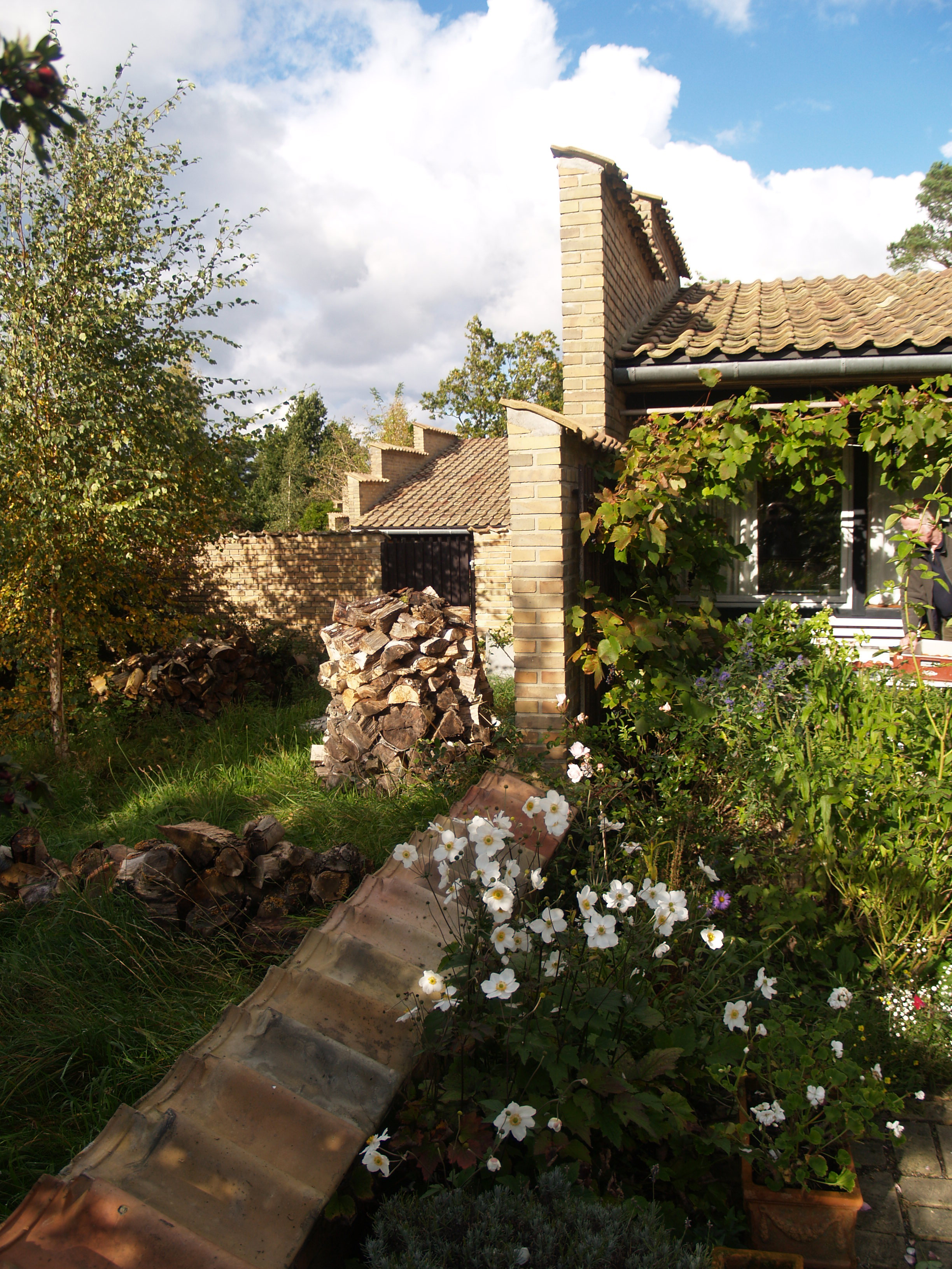 Jørn Utzon's Kingo Houses in Helsingør, Denmark